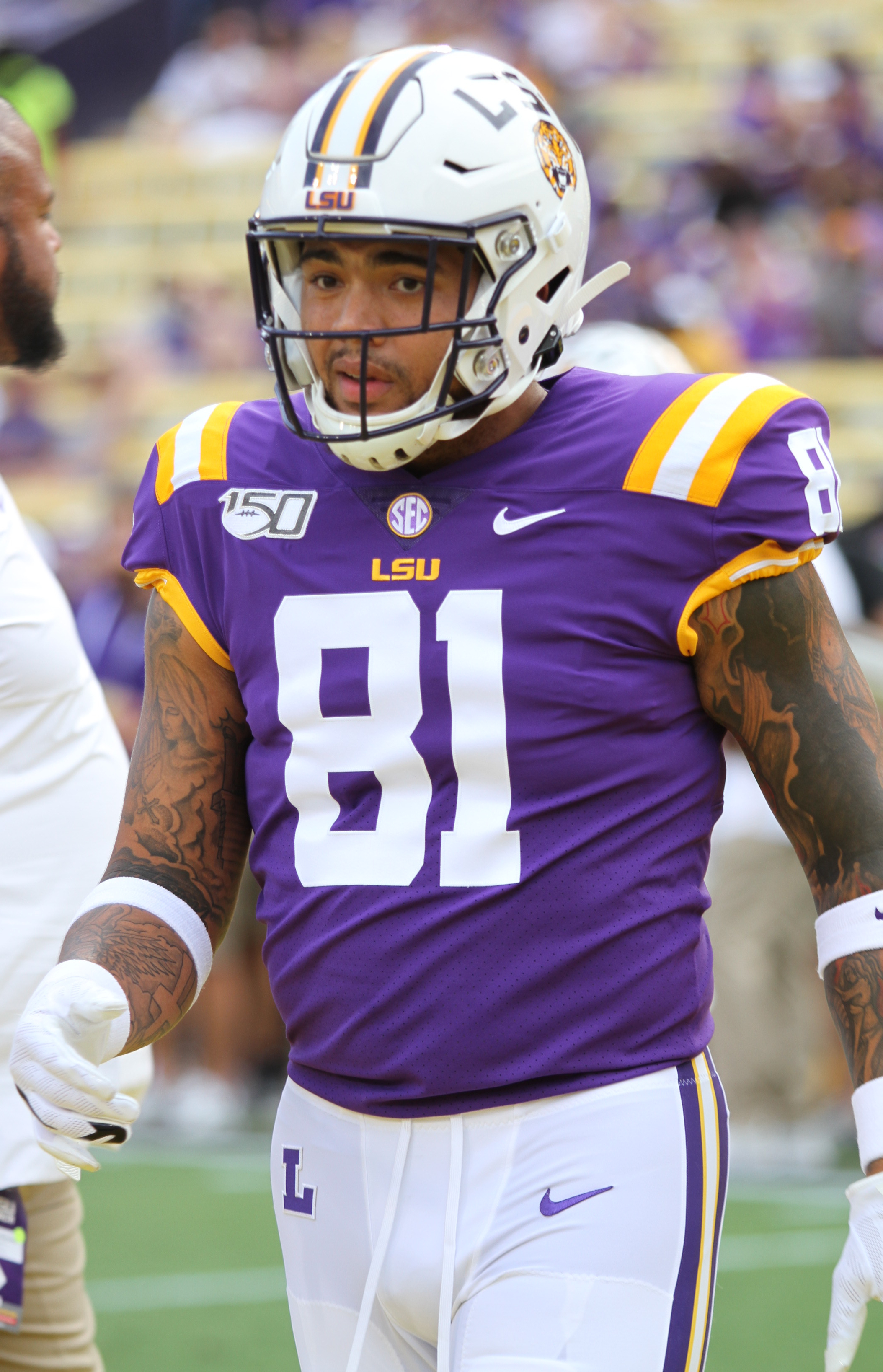 Thaddeus Moss, #81, Tight End, LSU Tigers vs Northwestern LA Demons, September 14, 2019, Tiger Stadium, Baton Rouge, Louisiana, Tammy Anthony Baker, Photographer @tabinla @tmabaker @Thaddeusmoss